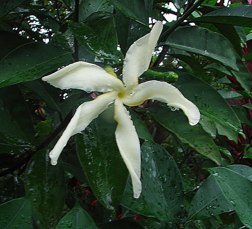 Known as the Giant Pinwheel Flower, this species of tropical Africa has traveled widely, in part due to its scented flowers and in part due to folk medicine applications. Photo from Hawaii.